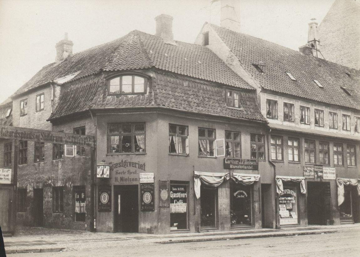 Sorte Hest in Copenhagen, Denmark